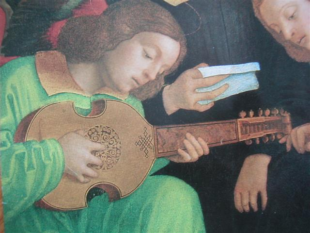 (left to right) Catherine of Alexandria, Leonard, Augustine, and Apollonia. Vasari described the painting at length. The hill and the fortress on the left are taken from Dürer's engraving of St Eustace about 1501.